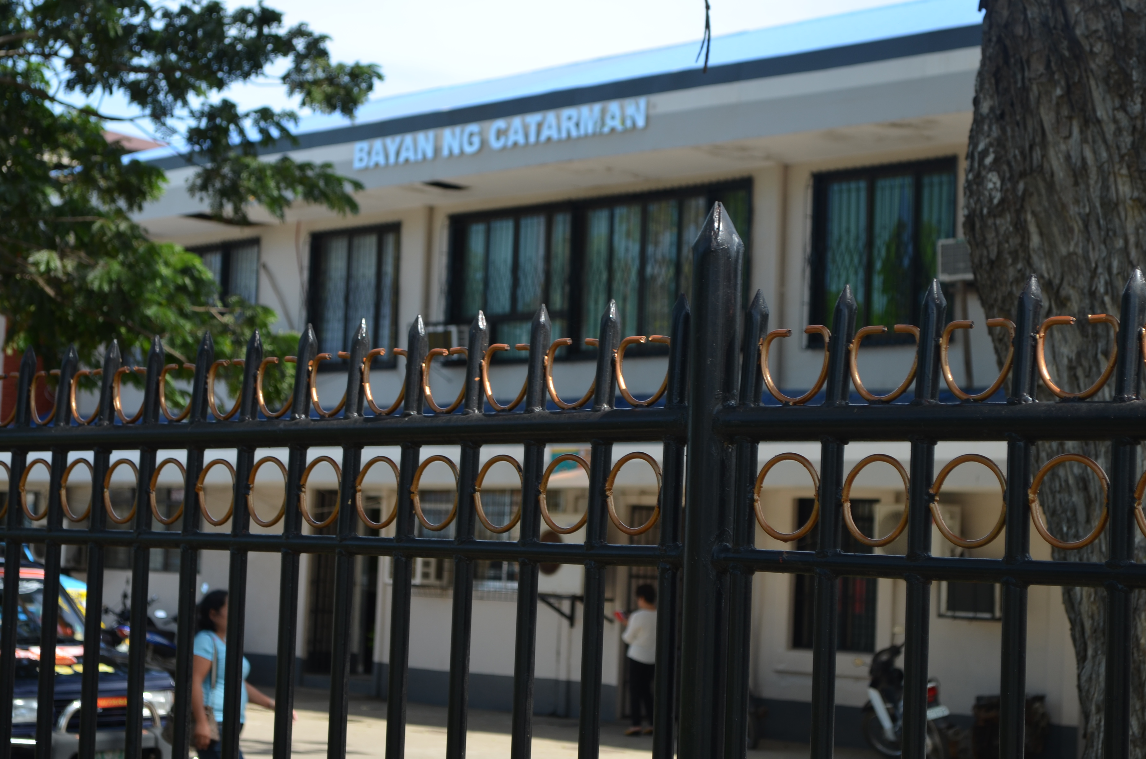 Taken during the December 2015 Sinirangan Bisaya Wikimedia Community activities in Eastern Visayas